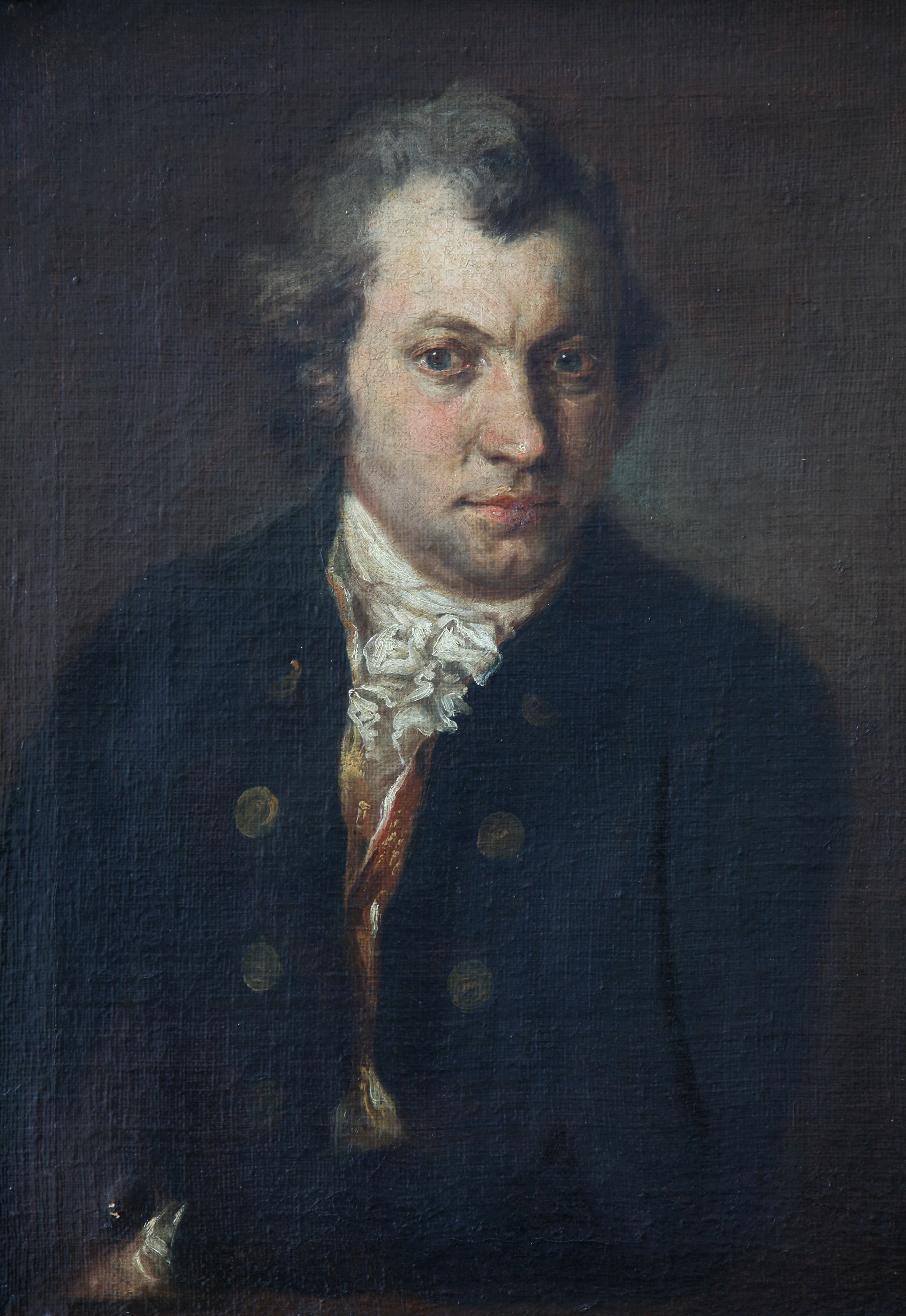 Portrait of Heinrich Zimmermann (1741-1805), German traveller